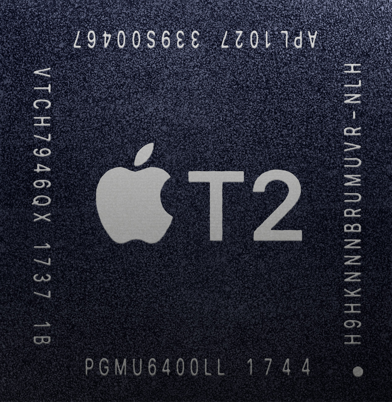 An illustration of Apple's T2 SoC controlling the in the iMac Pro. Inspiration for this picture comes from iFixit's teardown of the iMac Pro